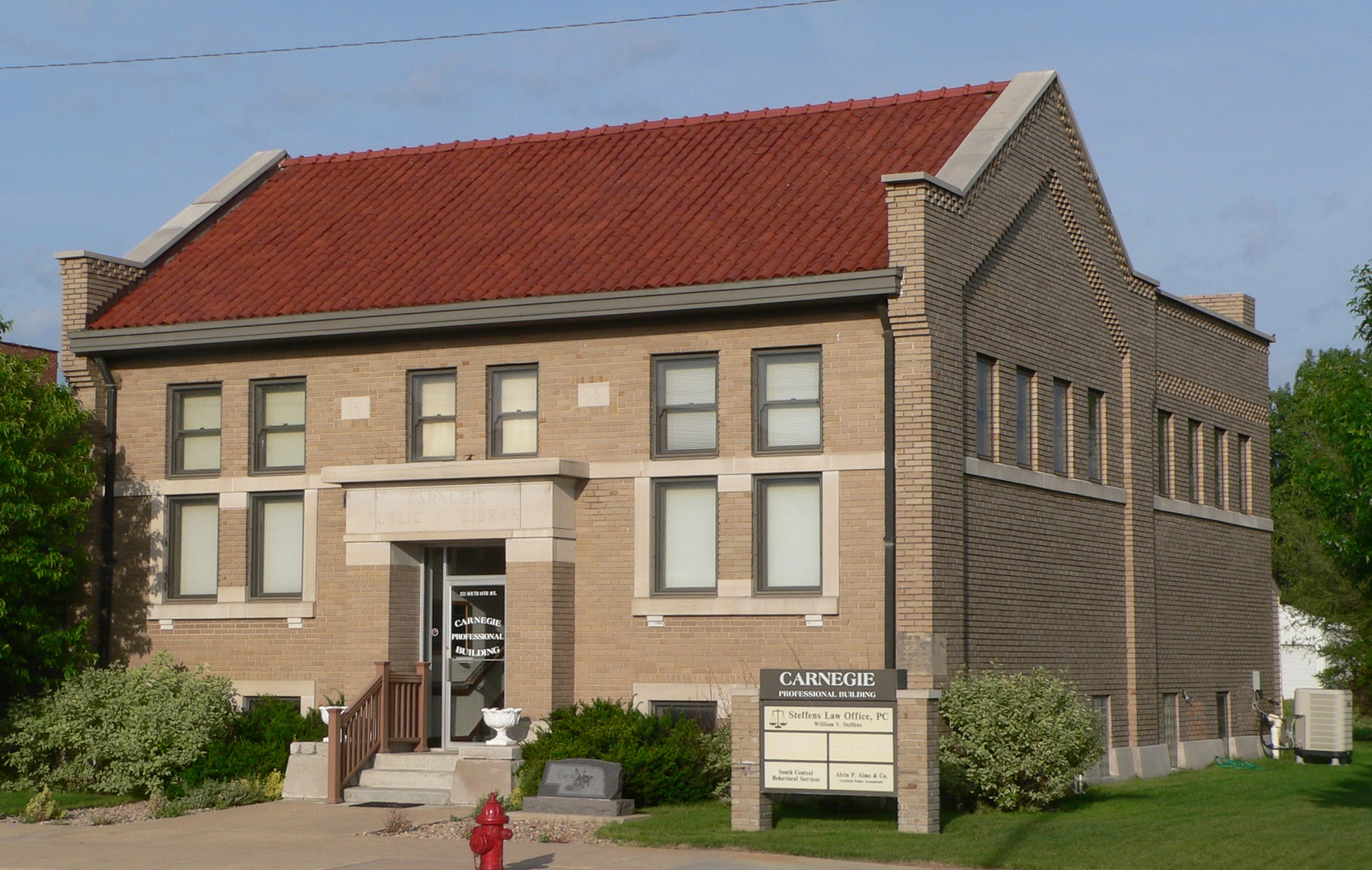 Broken Bow Carnegie Library in Broken Bow, Nebraska; seen from the northeast. The building was constructed in 1915, and is listed in the National Register of Historic Places. It now houses several private businesses.